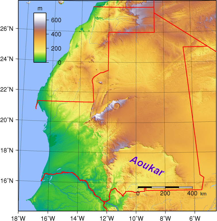 Location of the Aoukar basin Source: *Mauritania_Topography.png This is a retouched picture, which means that it has been digitally altered from its original version. Modifications: Location: Aoukar Basin. The original can be viewed here: Mauritania Topography.png: . Modifications made by Xufanc.